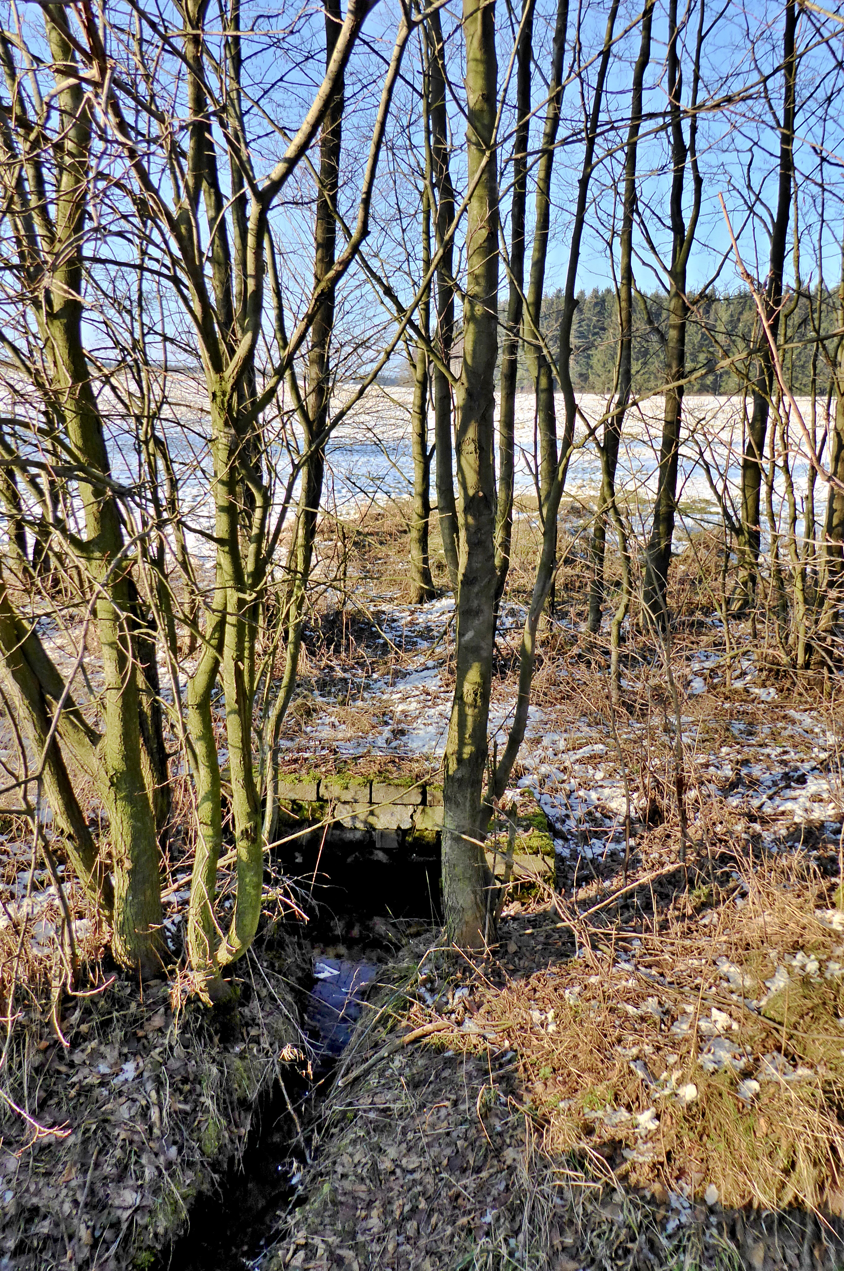 The springs area of "Chrudimka" river near the village "Dědová", source on a meadow is led by a pipe. In the photo the watercourse in the trough appears near the road "Dědová – Kameničky". Photo locality: Czechia, Pardubice Region, municipality Dědová, forest locality Humperky, "Kameničská" Highlands, source of river "Chrudimka".